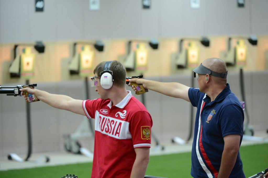 U.S. Army Sgt. 1st Class Daryl Szarenski, right, a member of the Army World Class Athlete Program, competes in the 2012 Summer Olympics 10-meter air pistol event at the Royal Artillery Barracks in London July 28, 2012. Szarenski placed 23rd in the event.